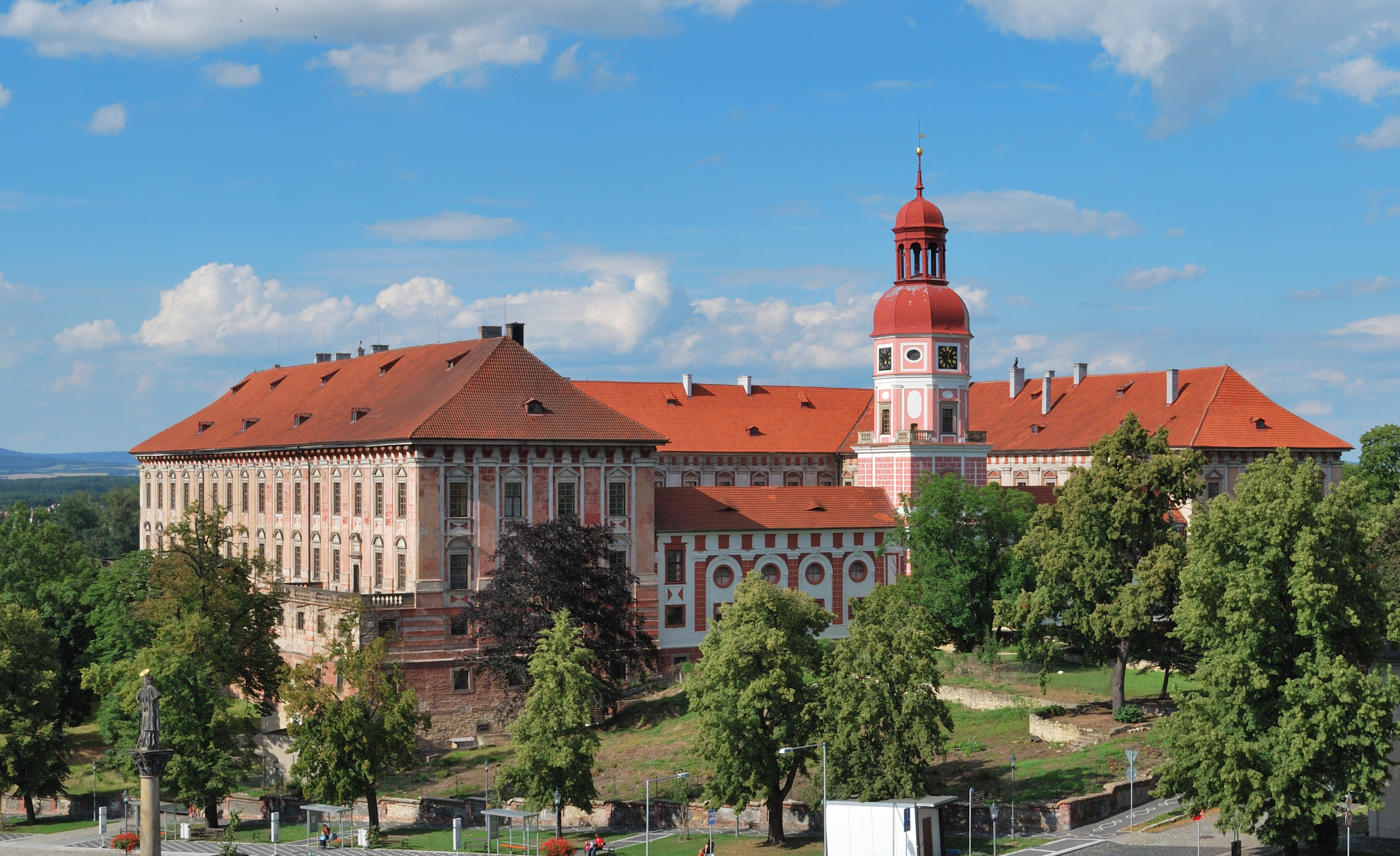 The Lobkowicz castle of Roudnice nad Labem, Ústí nad Labem Region, in the Czech Republic. View from the Hotel Vavrinec on Karlovo náměstí.